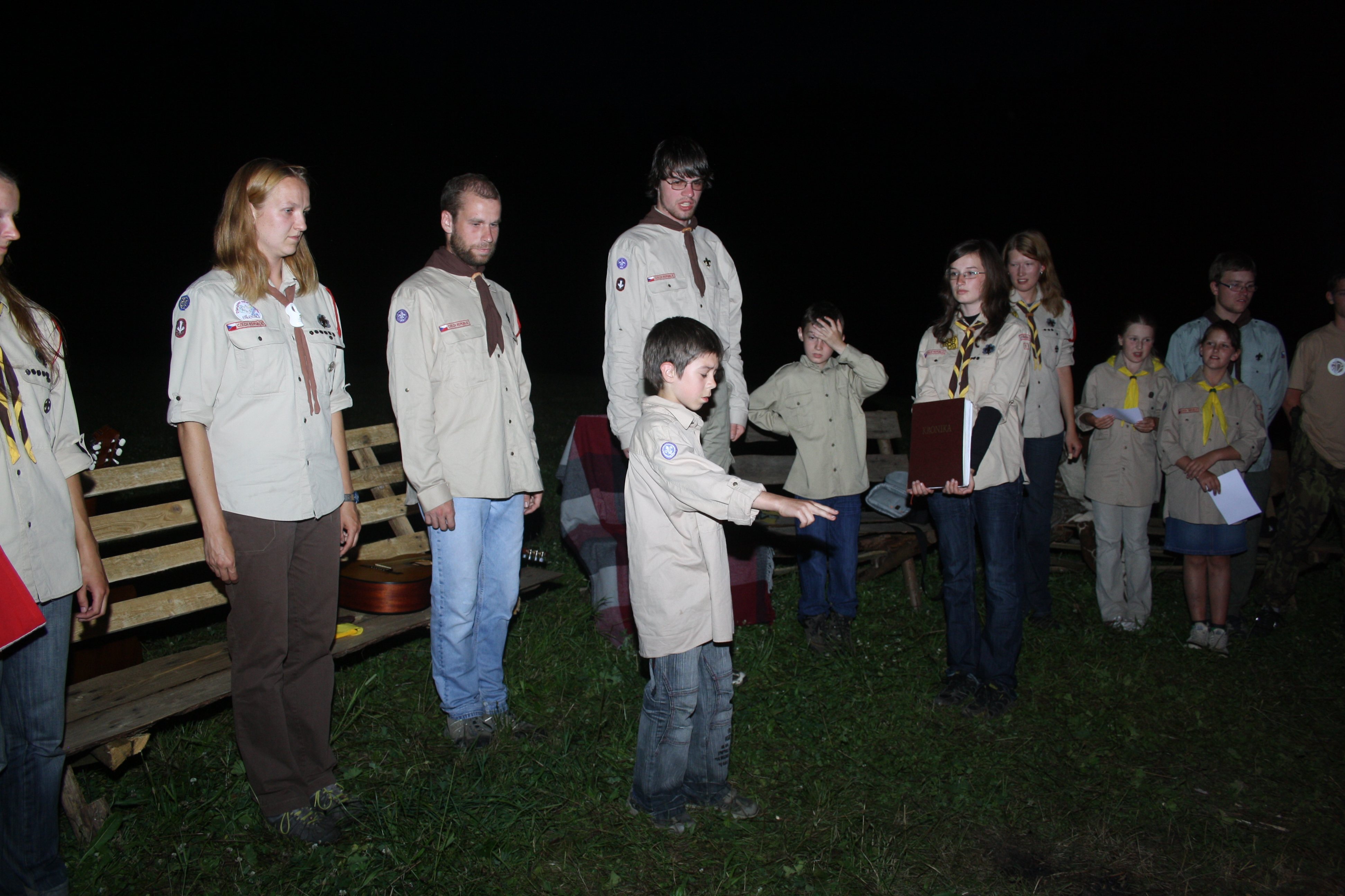 Promise of scout in the Czech Republic.